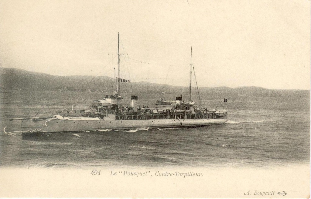 French destroyer Mousquet, famous for her fight against SM Emden